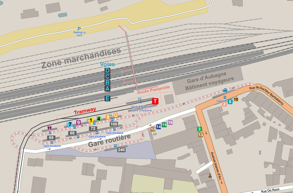 Map of the train and bus station of Aubagne